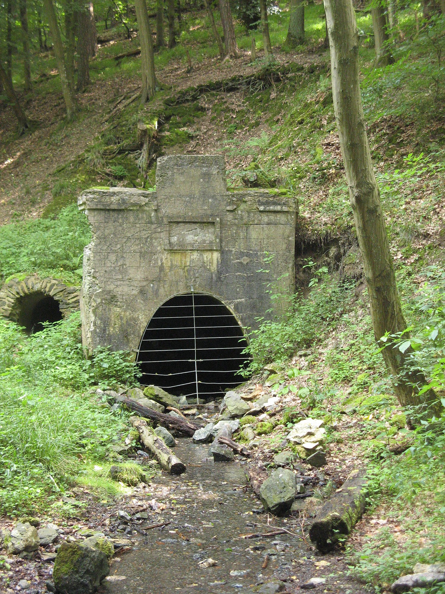 Adit „Magnet“ Schupbach, Hesse, Germany